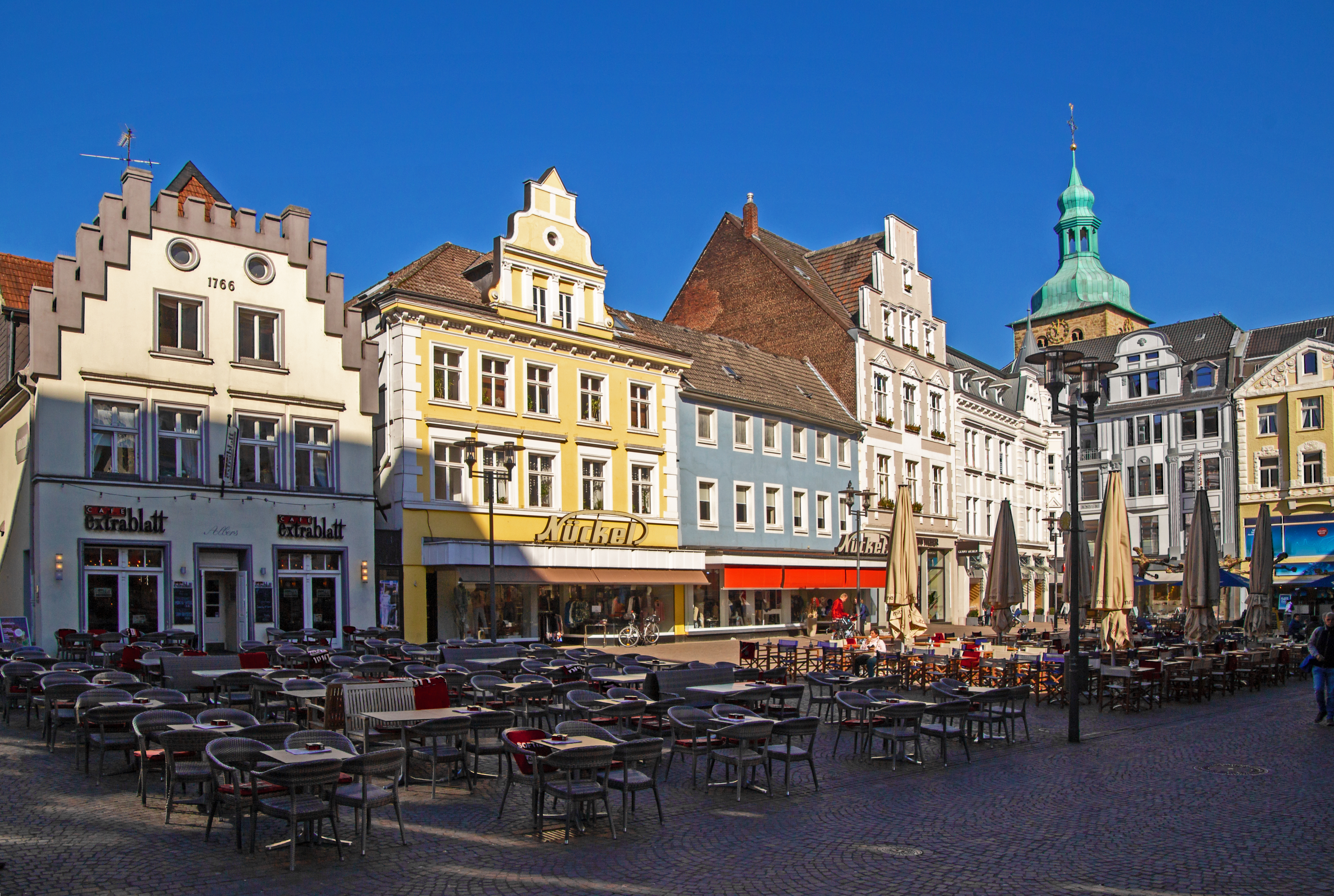 main-square - city of Recklinghausen, North Rhine-Westphalia, Germany